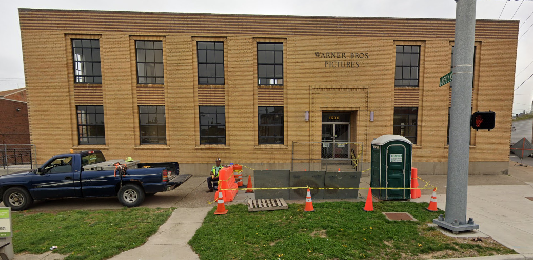 The door to Liberty Street Station